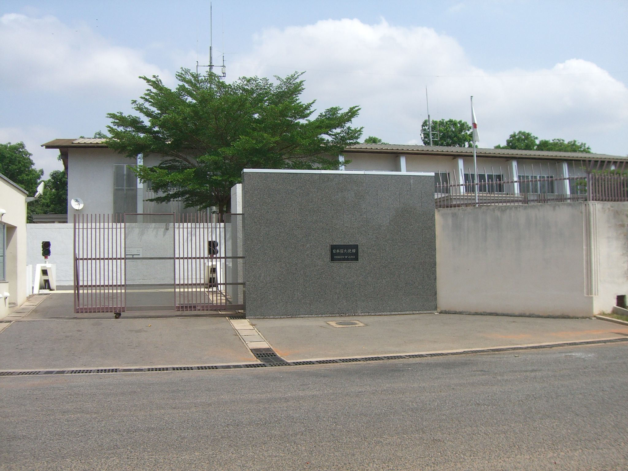 Japan Embassy in Accra, Ghana